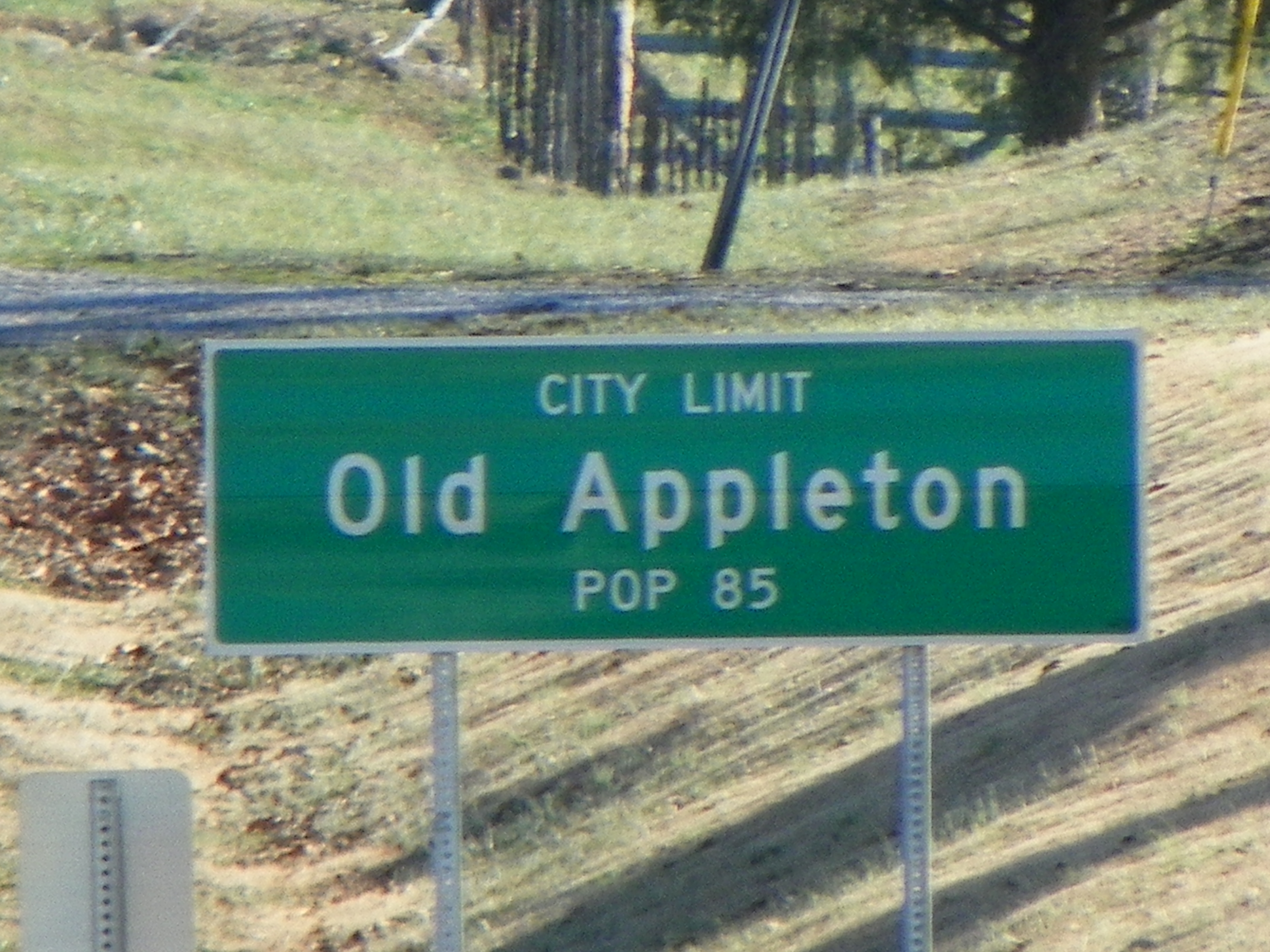 Old Appleton, Missouri, Road sign